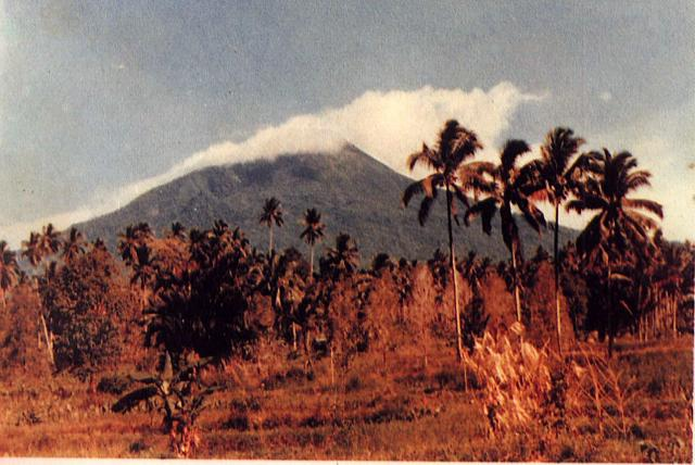 Weather clouds drape the summit of Gunung Klabat, an isolated symmetrical stratovolcano that rises to 1995 m near the eastern tip of the northern arm of Sulawesi. Klabat, rising above the farming village of Tatelu below its NW flank, has a shallow lake in its 170 x 250 m summit crater. No verified historical eruptions have occurred from Klabat volcano, the highest peak in northern Sulawesi.